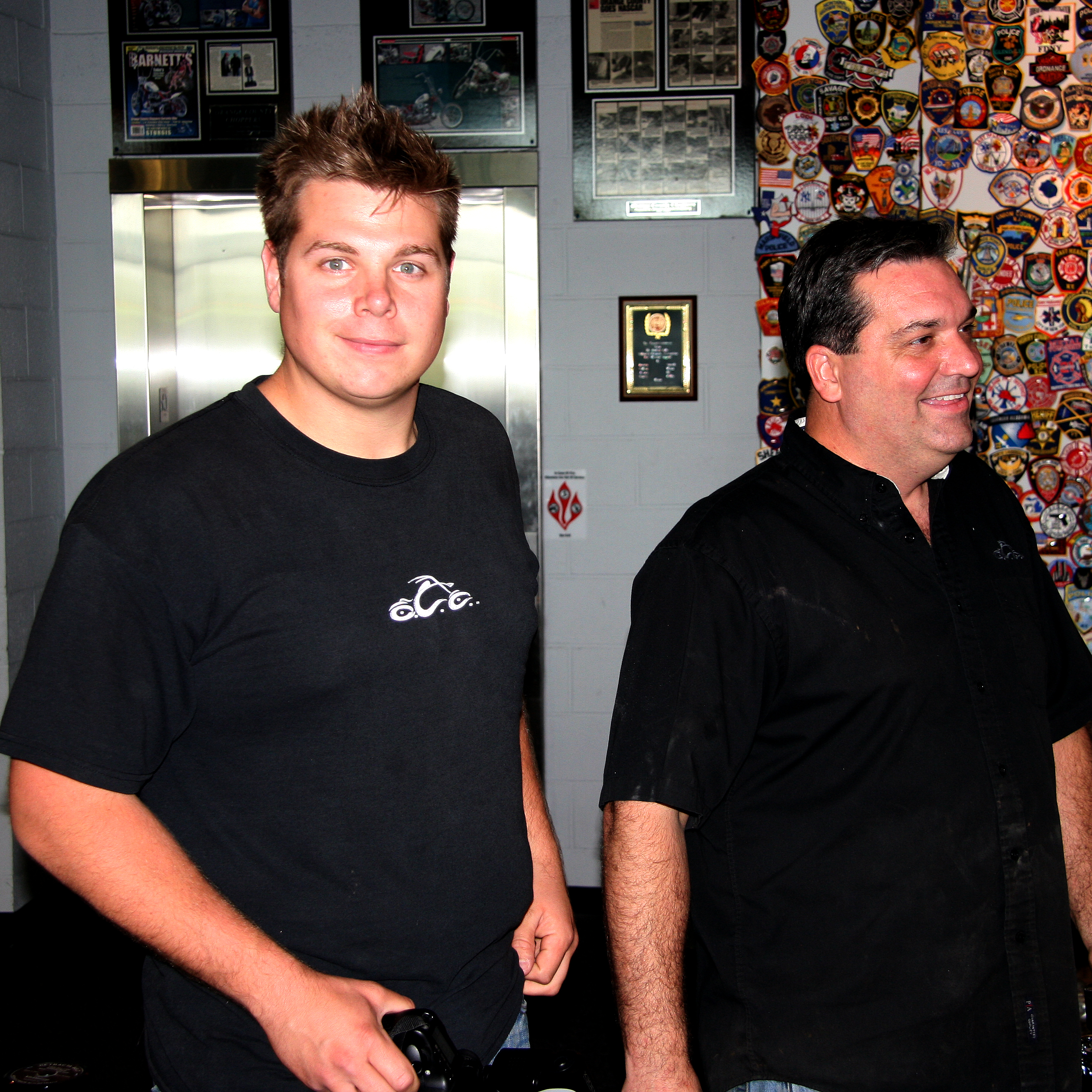 "Jason Pohl and [Jim Quinn] come back after lunch and take a moment to say hey to the fans before fleeing into the shop and getting back to work."